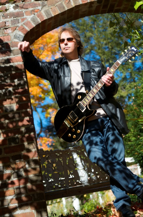 Roger Filgate, Worlds Within promotional pic.